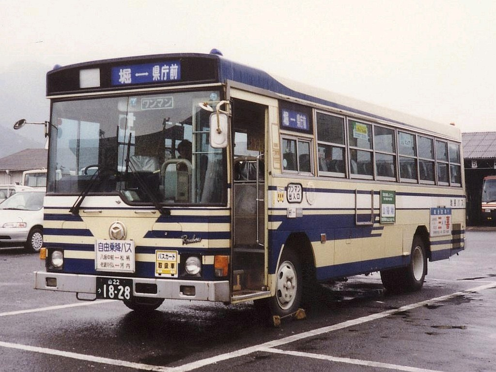 Company:Bocho Kotsu Use:transit bus Belongs to:Hori Depot Car license:山22 う 1828 Chassis manufacturer:Hino Motors Coachbuilder:Hino Body Location:in Tokuji Town, Yamaguchi, Japan Succeeded from Boseki Tetsudo Scanned from negative color print